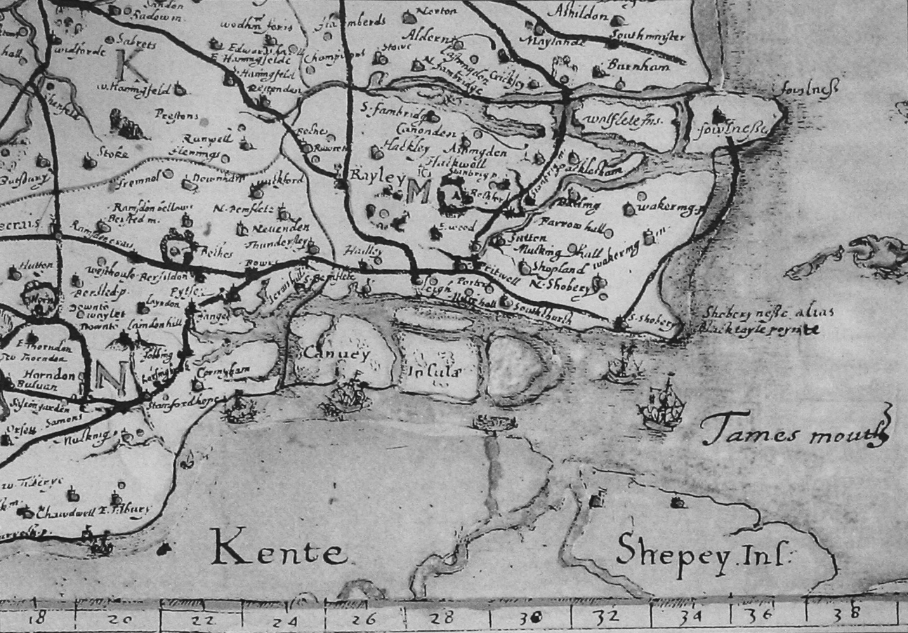 Image of John Norden's map of south east essex in 1594. The map shows the geographical status of the Canvey group of islands before the unifying reclamation project of 1622.